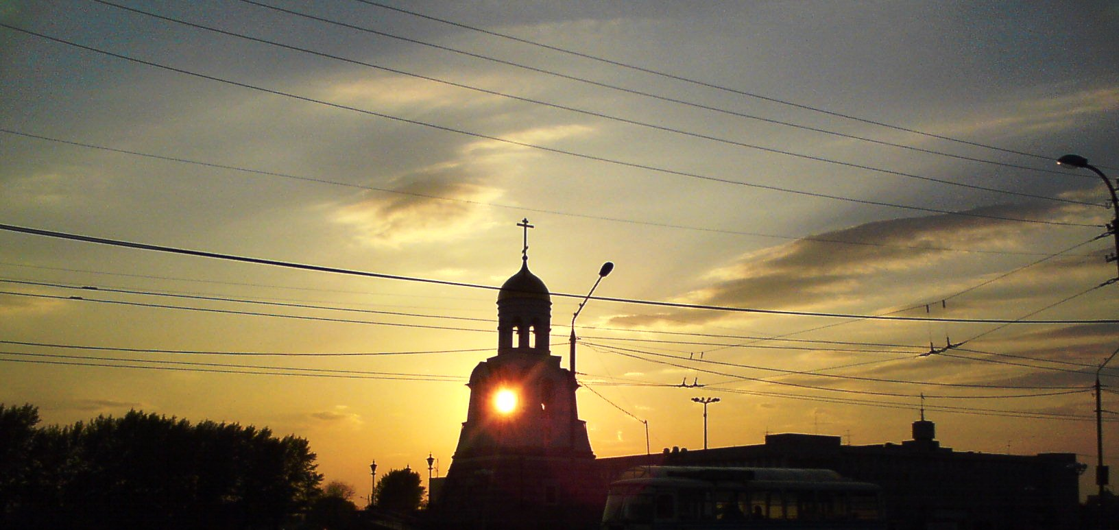 Chapel of Alexander Nevsky in Kamensk-Uralsky, Sverdlovsk oblast, Russia